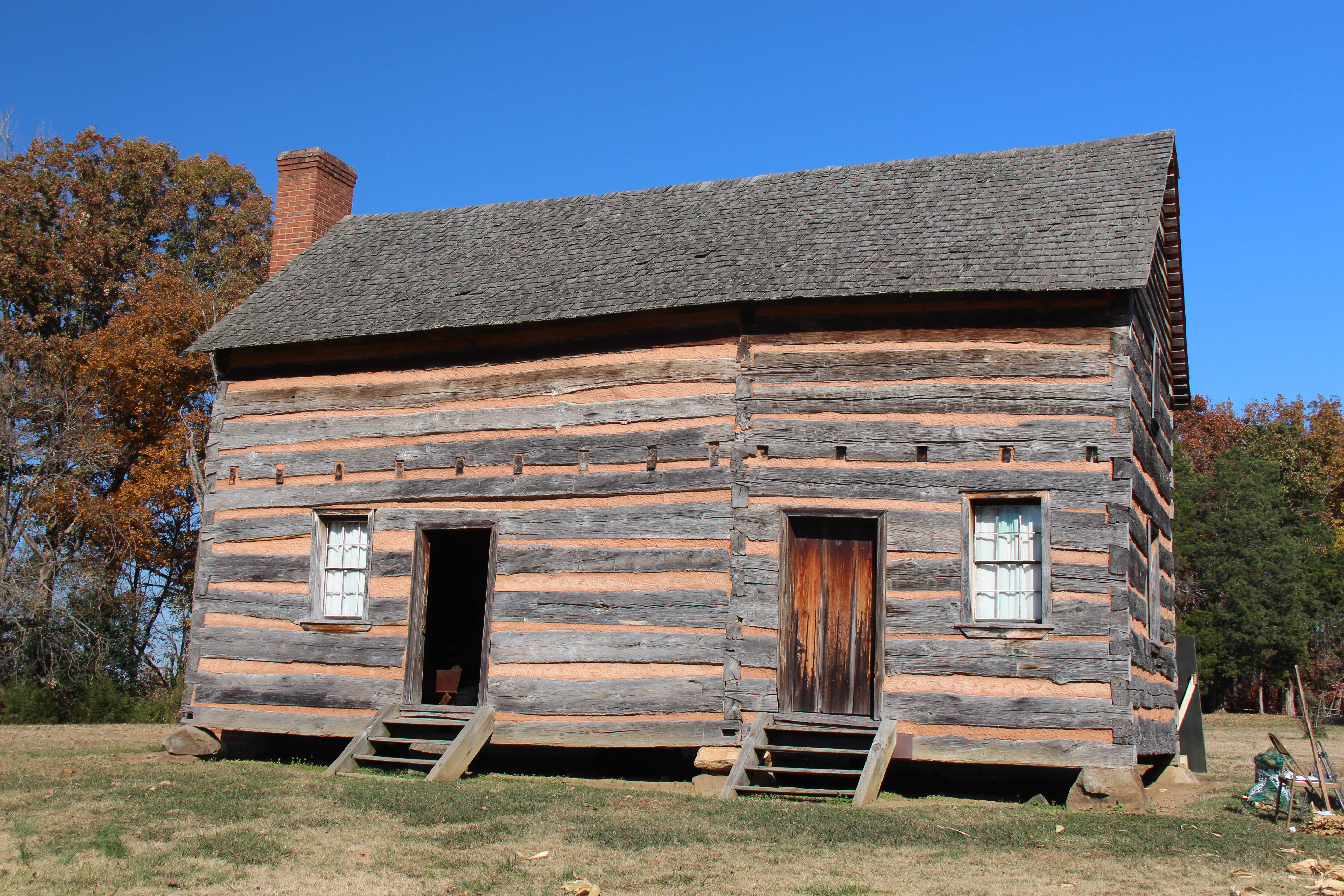 Reconstructed log cabin similar to one young James K. Polk lived in at the Pres. James K. Polk State Historic Site near Pineville